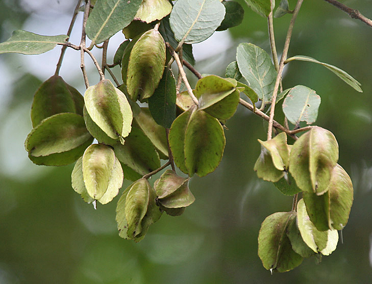 Arjun Terminalia arjuna in Kolkata, West Bengal, India.